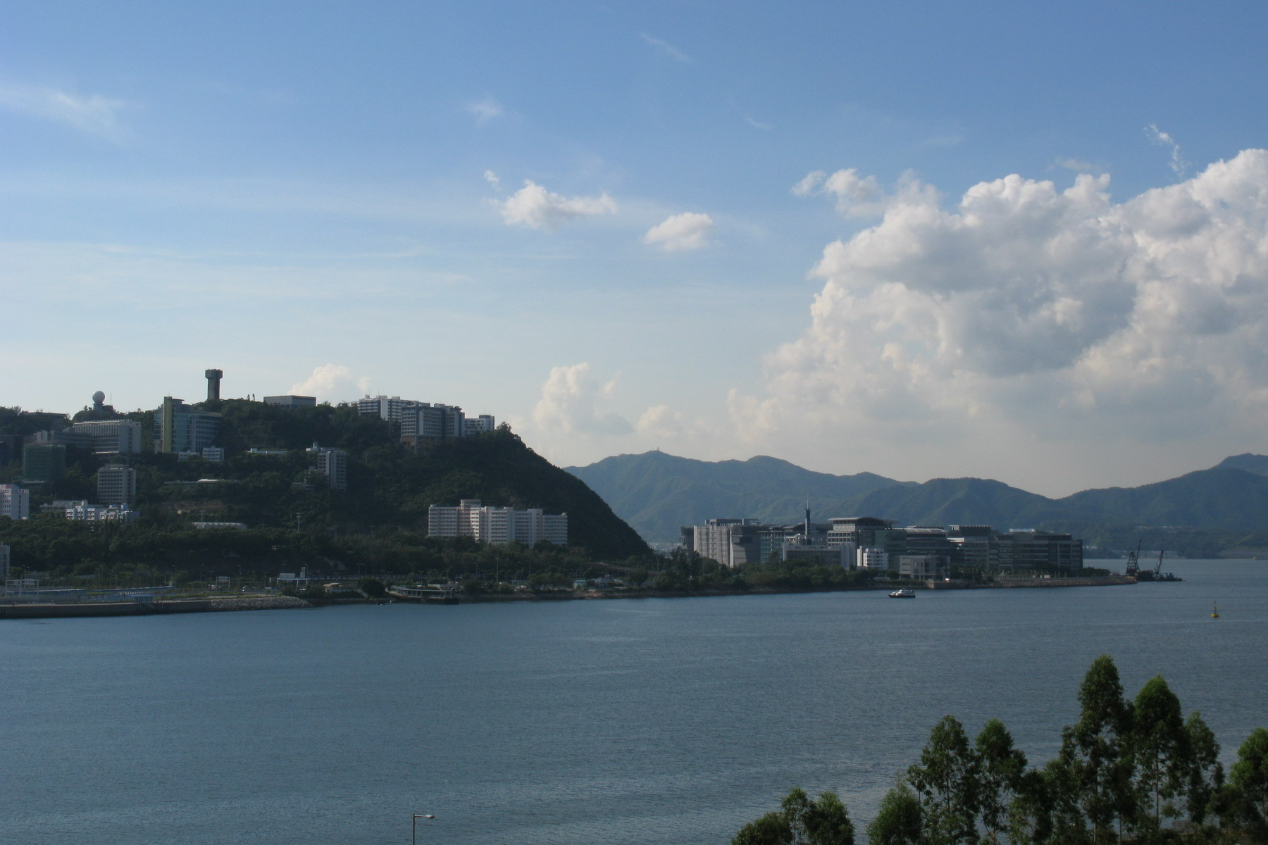 Ma Liu Shui & Sha Tin Hoi